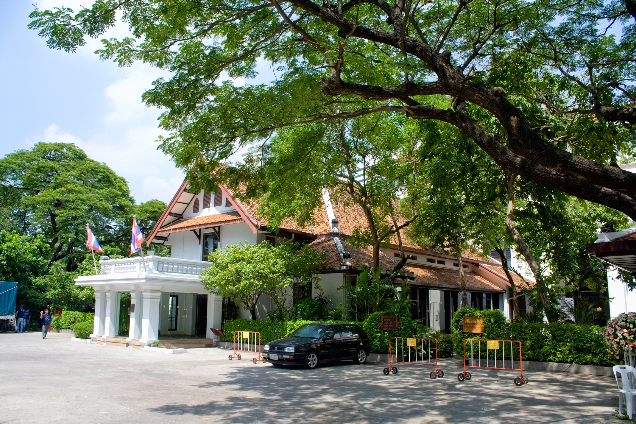 The Siam Society